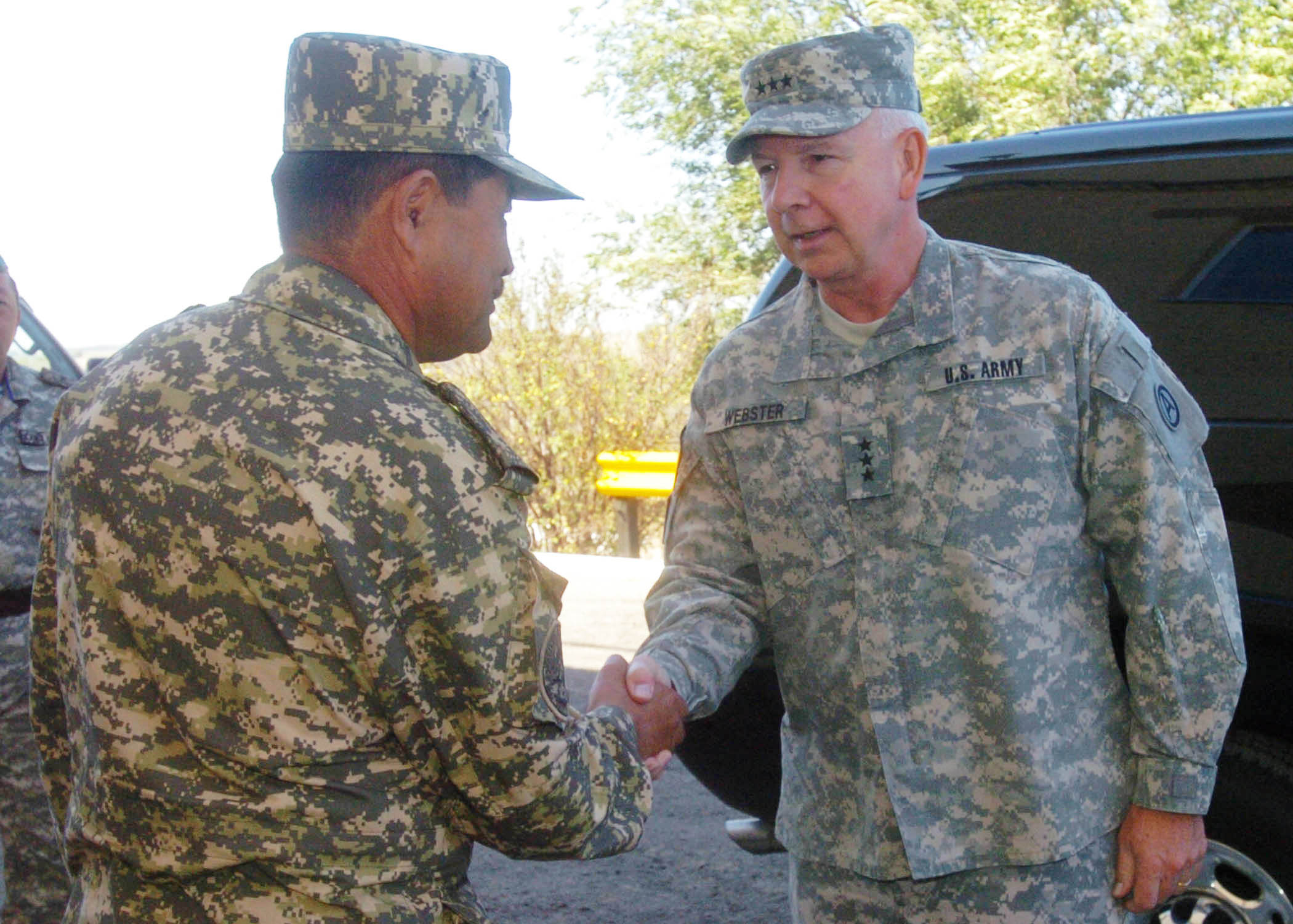 Gen. Maj. Adilbek Aldaberpenov (left), Kazakhstan Air Mobile Forces commander, greets Lt. Gen. William G. Webster, Third Army/U.S. Army Central commanding general, as he arrives at the KAZBAT 1st Battalion Headquarters, Kazakhstan, Sept. 24.